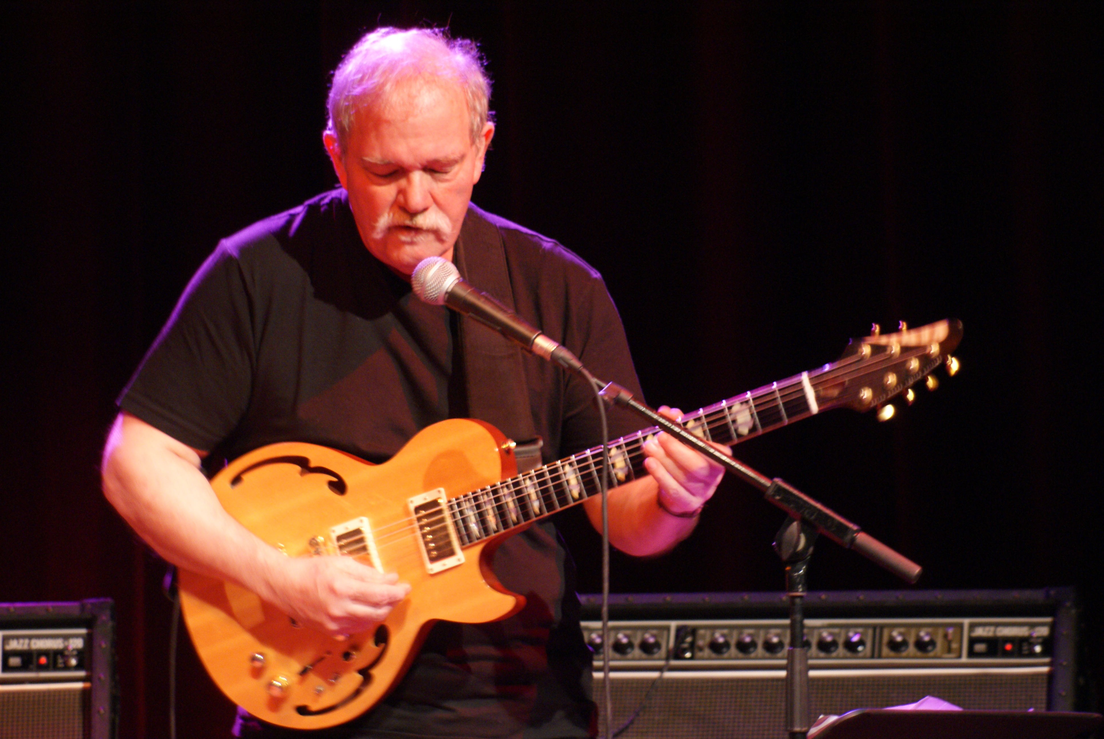 John Abercrombie Nice 2008